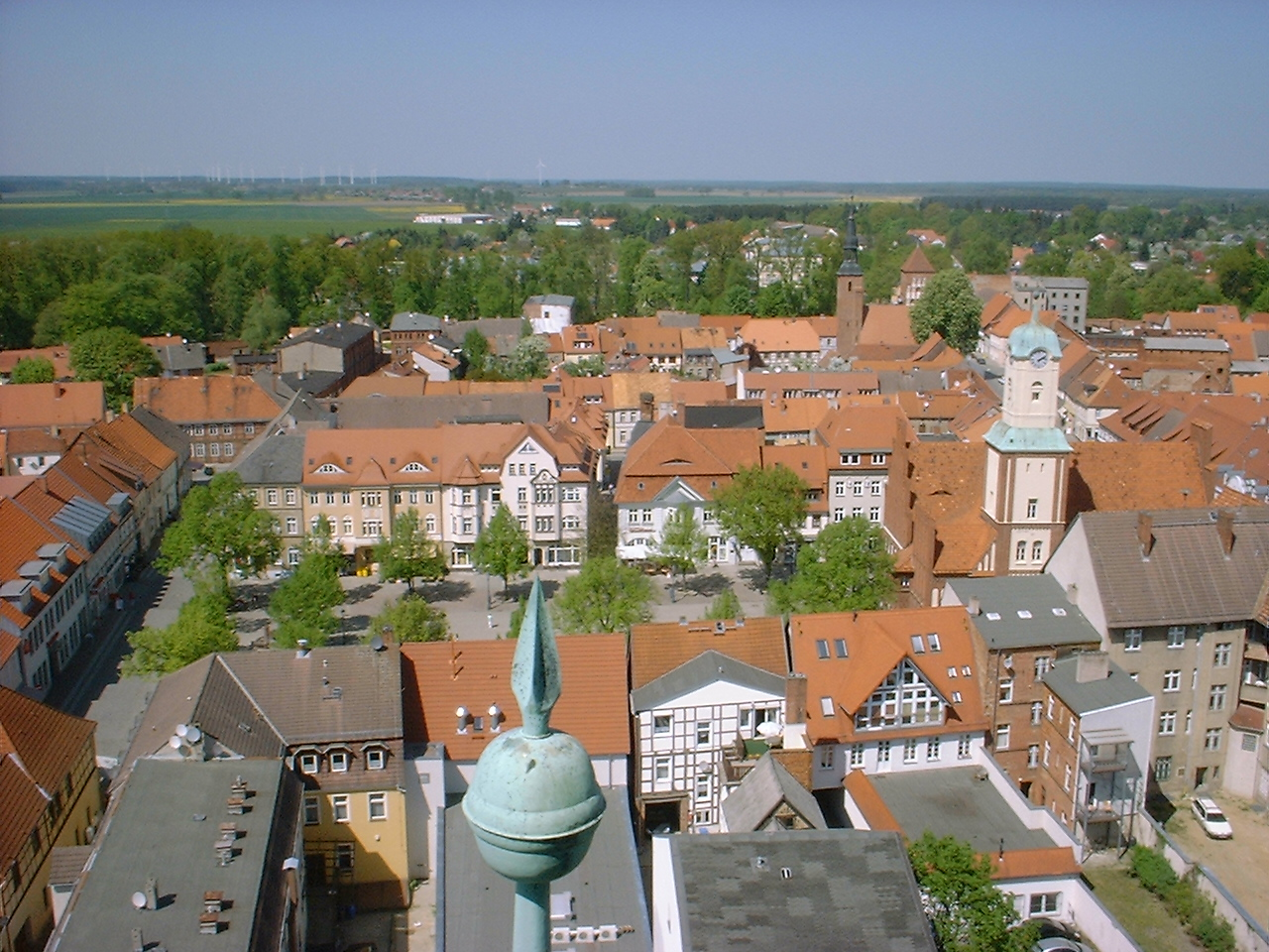 Market place and town hall in Wittstock (view from the tower of St. Mary's Church) in Brandenburg, Germany